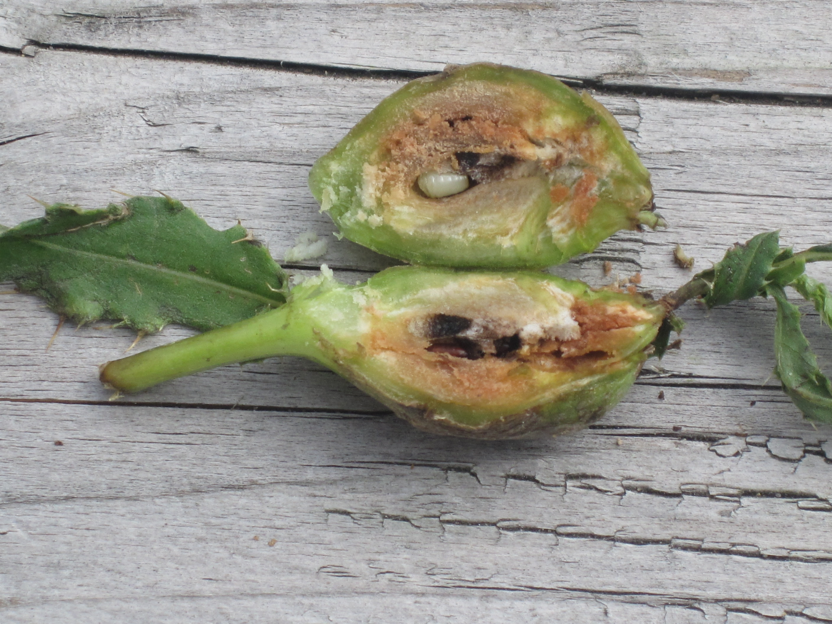 Urophora cardui (Canada thistle gall fly) larva inside gall in Cirsium sp., Arnhem, the Netherlands